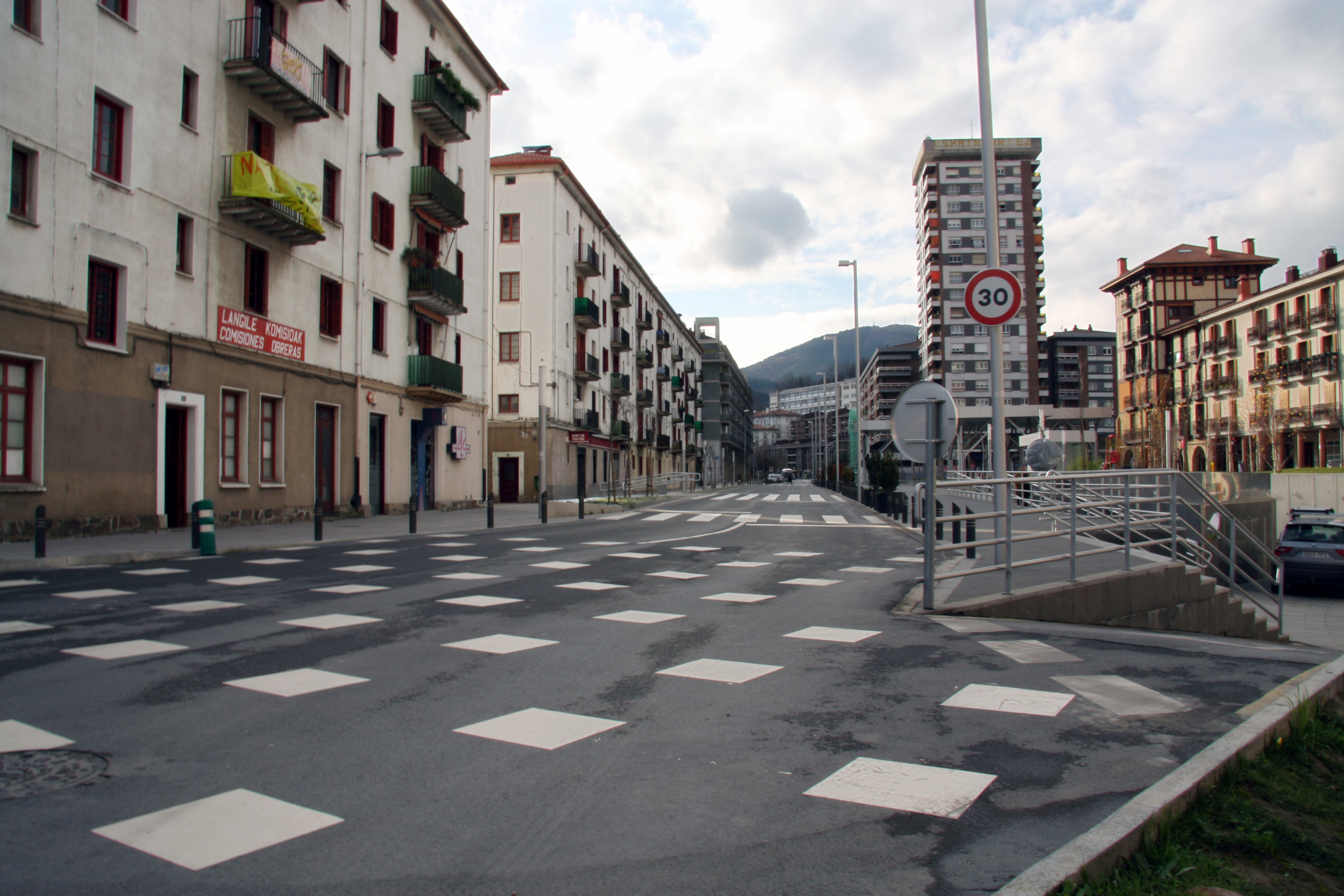 Garibai street at Arrasate